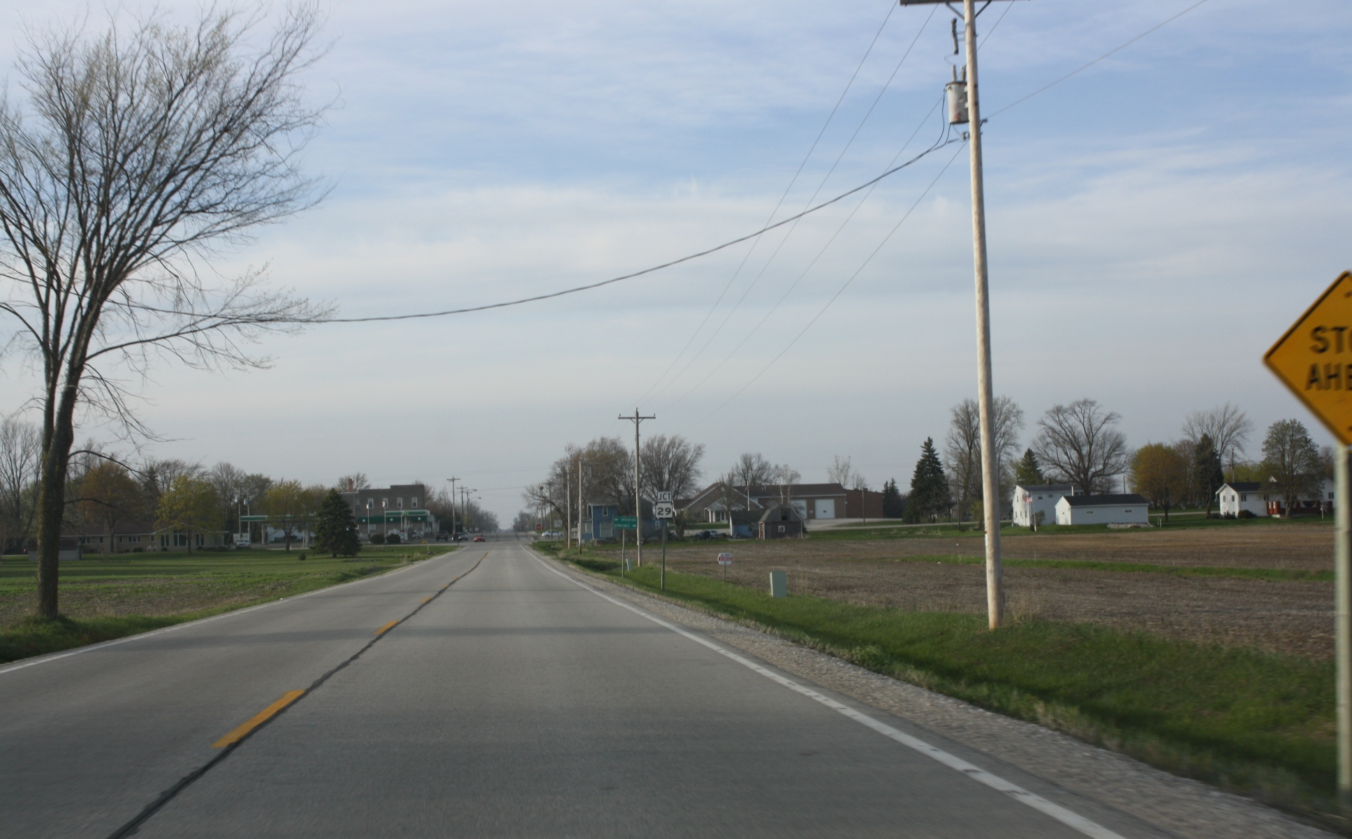 Looking north at a panorama for Polland, Wisconsin].